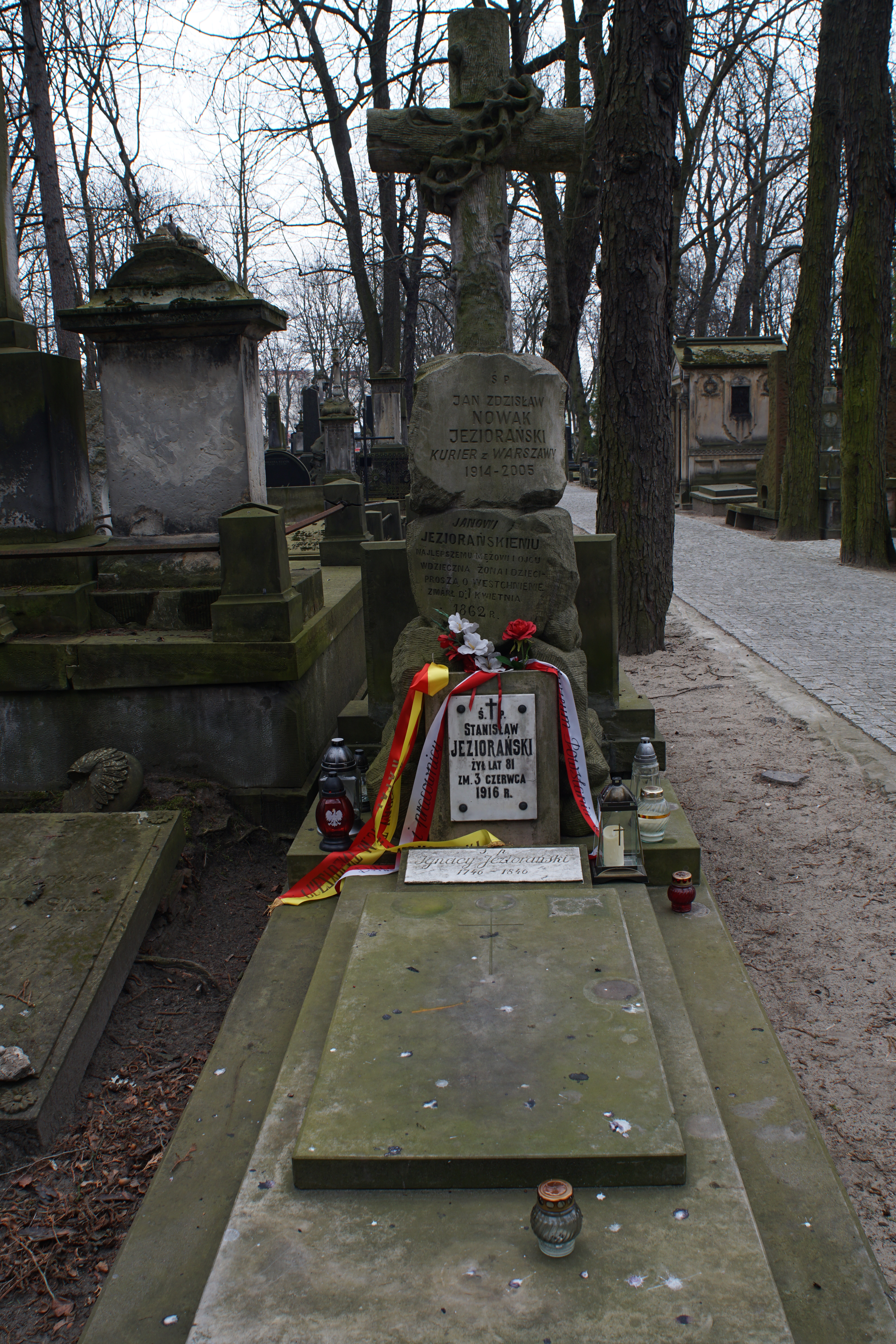 The grave of Jan Nowak-Jeziorański at the Powązki Cemetery (section 7, row 4, grave 30)